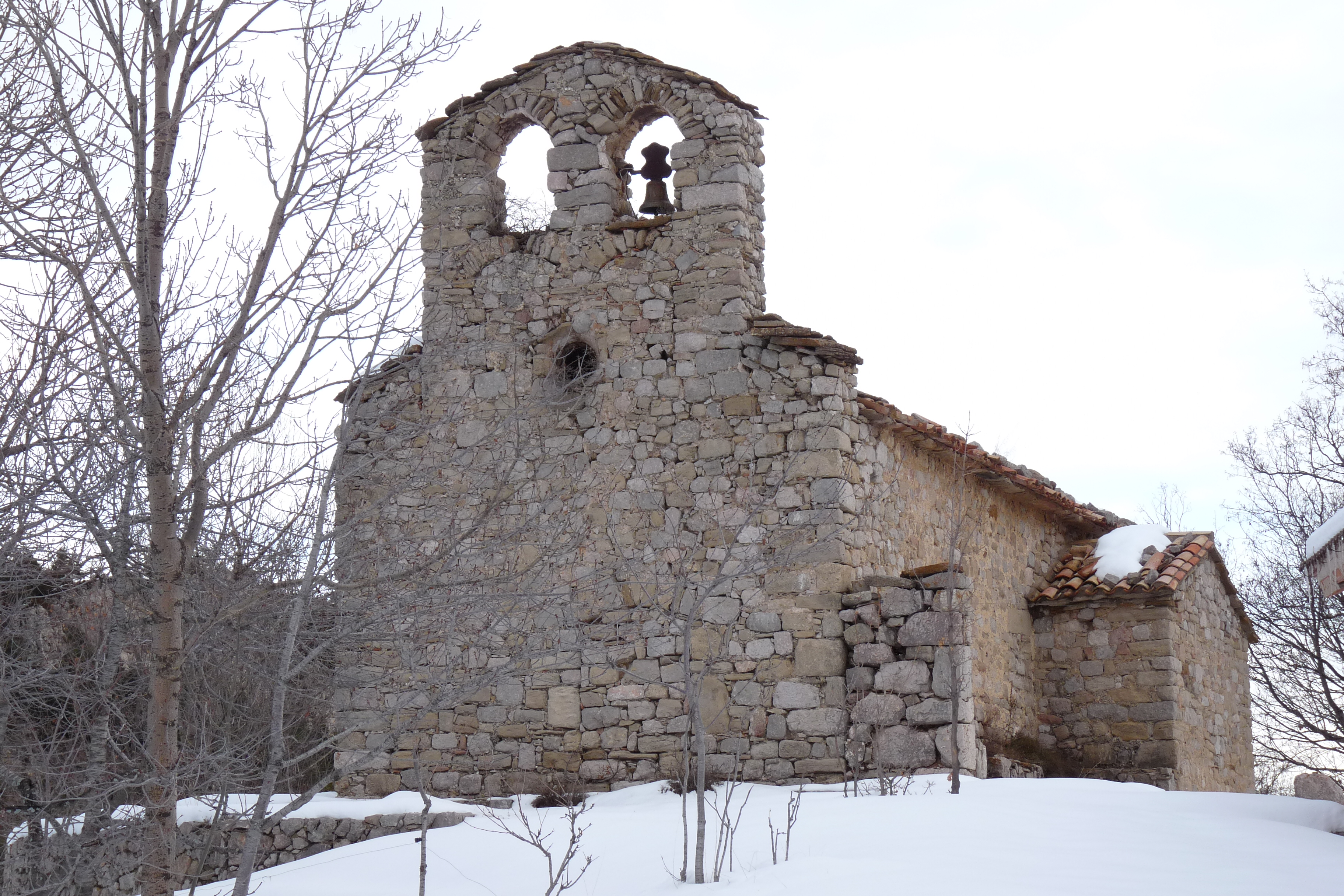 Sant Mateu, Romanic church (X century) of Fumanya, Fígols (El Berguedà)